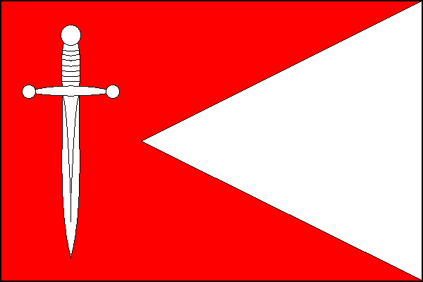 Municipal cflag of Jenišov village, Karlovy Vary District, Czech Republic.